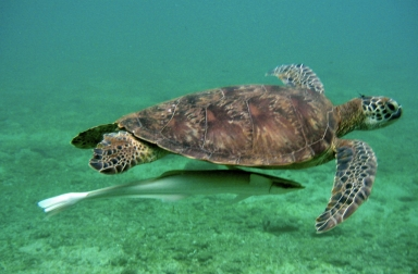 Turtle (Ouallah, Mohéli, Comoros